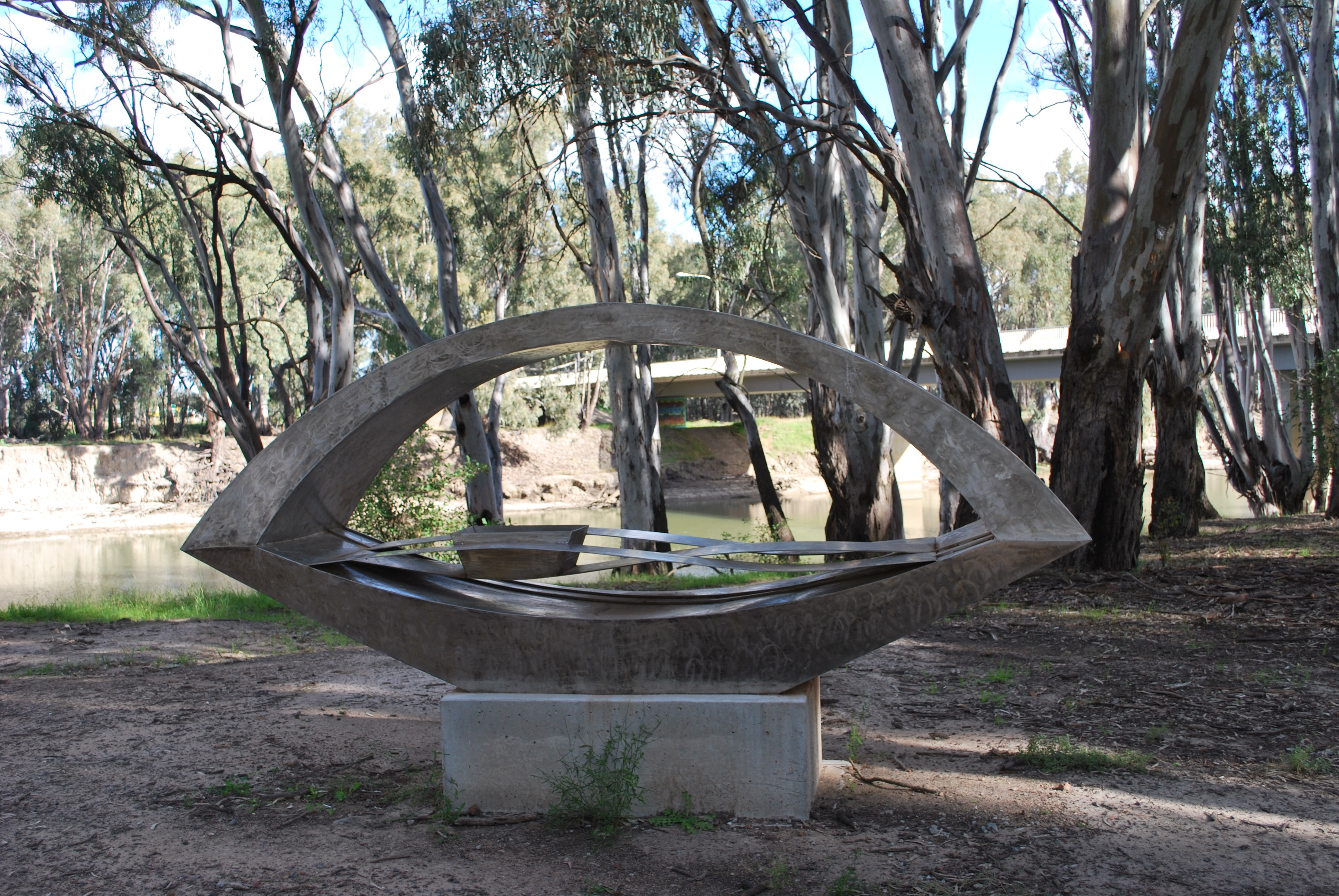 A sculpture on the bank of the Murrumbidgee River at Hay, New South Wales